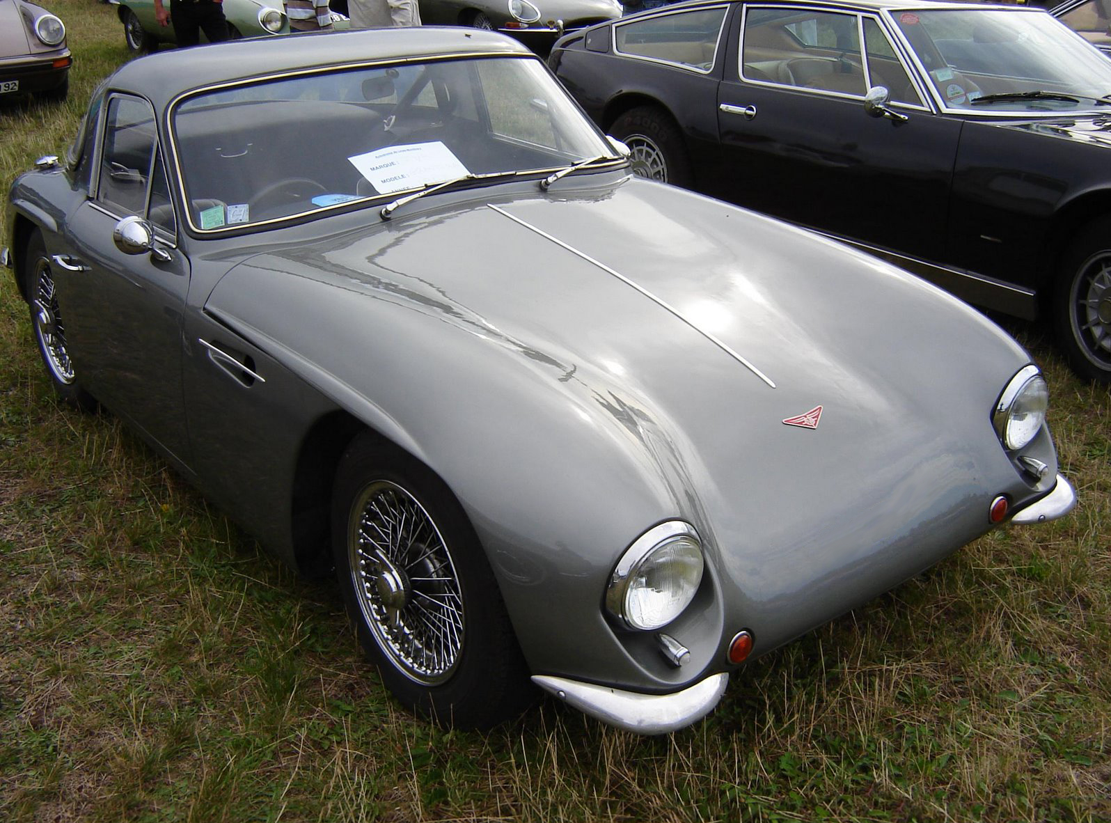 1962 TVR Grantura IIA at the Autodrome de Linas-Montlhéry, 2009